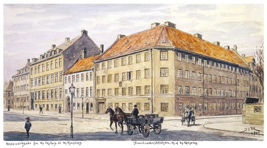 Håndværkerstiftelsen's Building on the corner of Vester Voldgade and Ny Kongensgade in Copenhagen, Denmark. Later demolished to make way for Dansk Arbejdsgiverforening's head office.